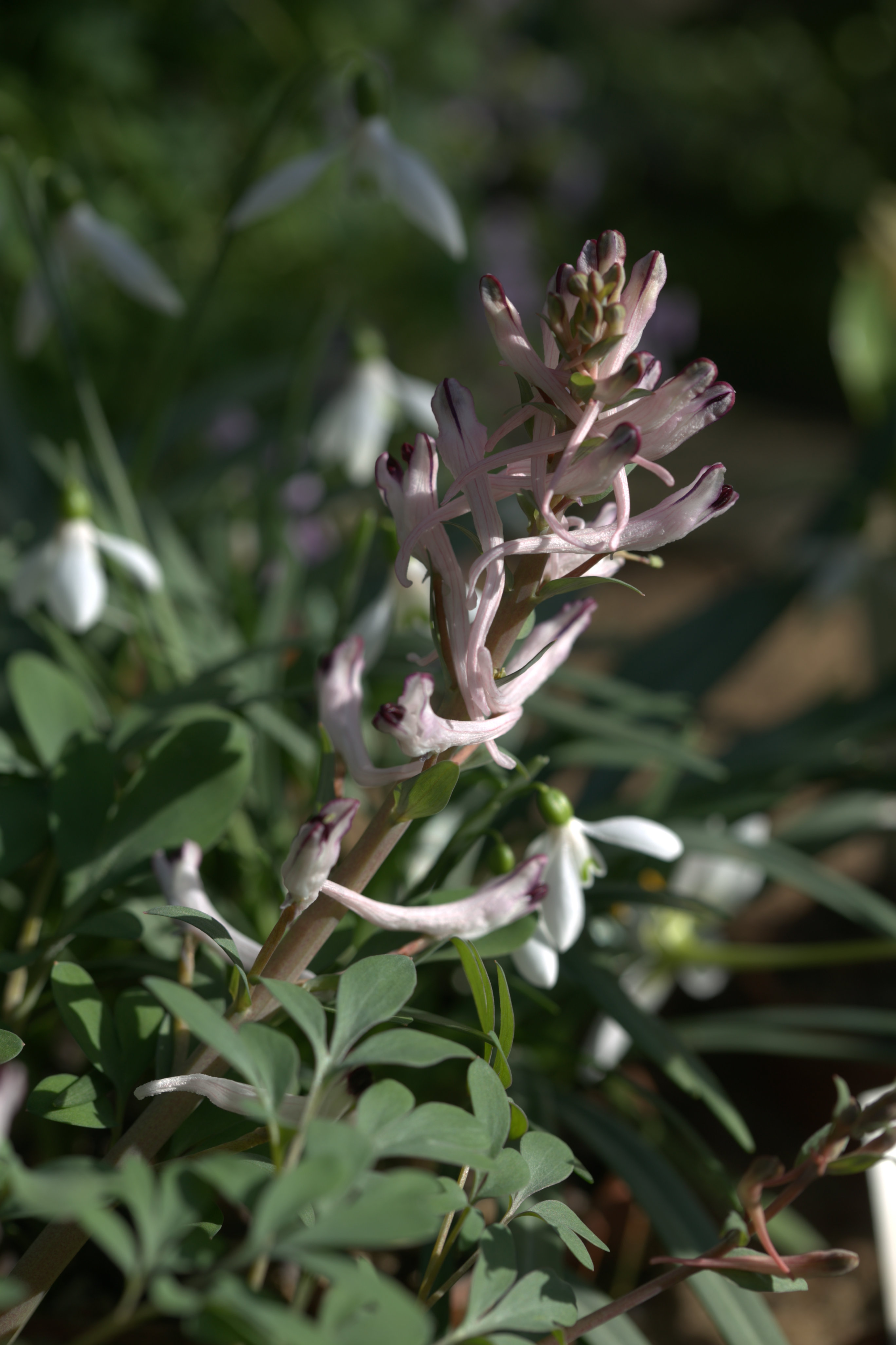 Corydalis schanginii in Goteburg Botanical Garden. Plant id: 2012-1513 -- 12KZ-109